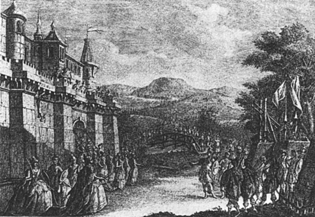 Maria Antonia Walpurgis - Talestri - final scene - engraving by Johann Benjamin Müller